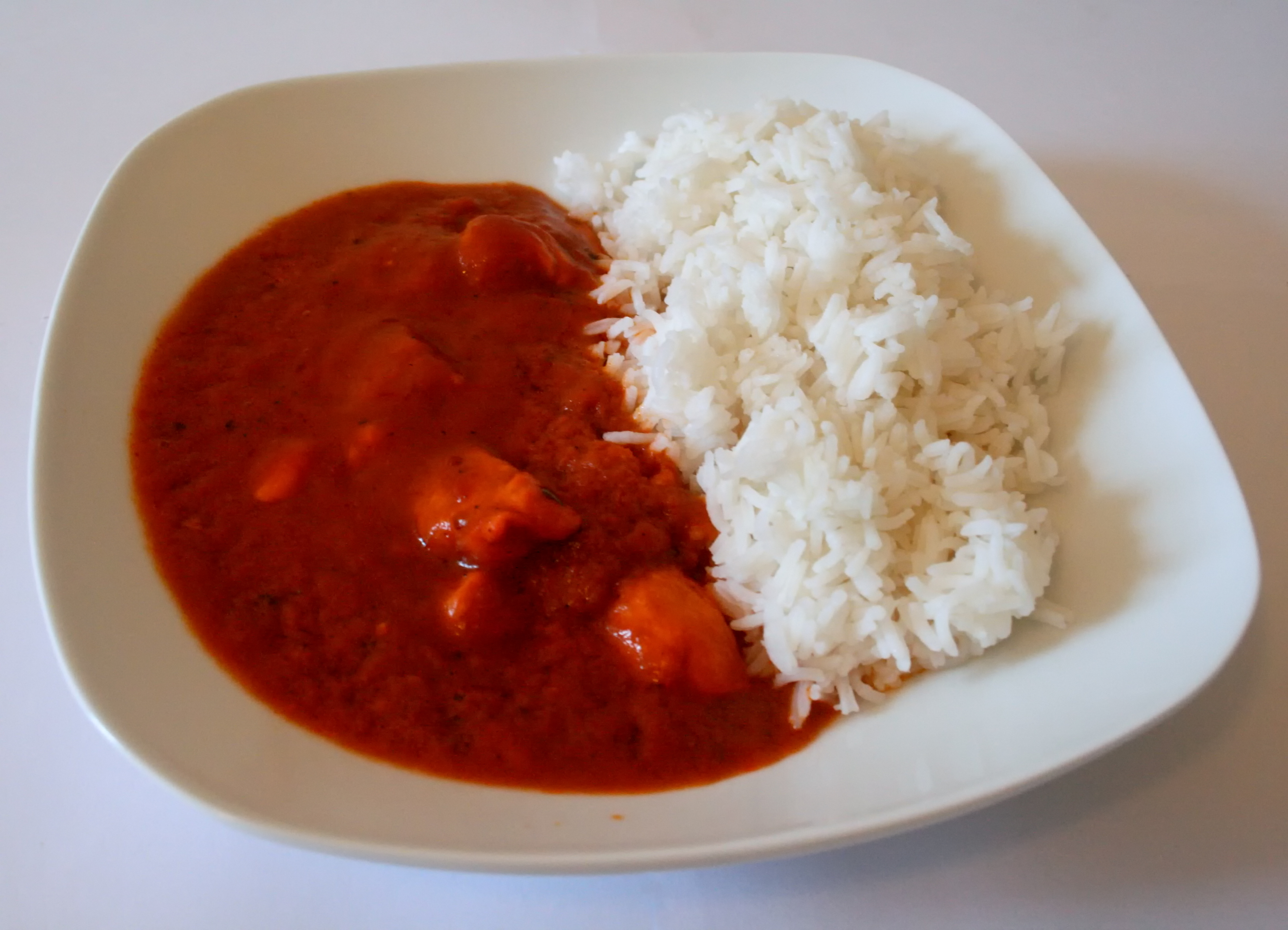 Indian Butter Chicken with Basmati rice on the side.